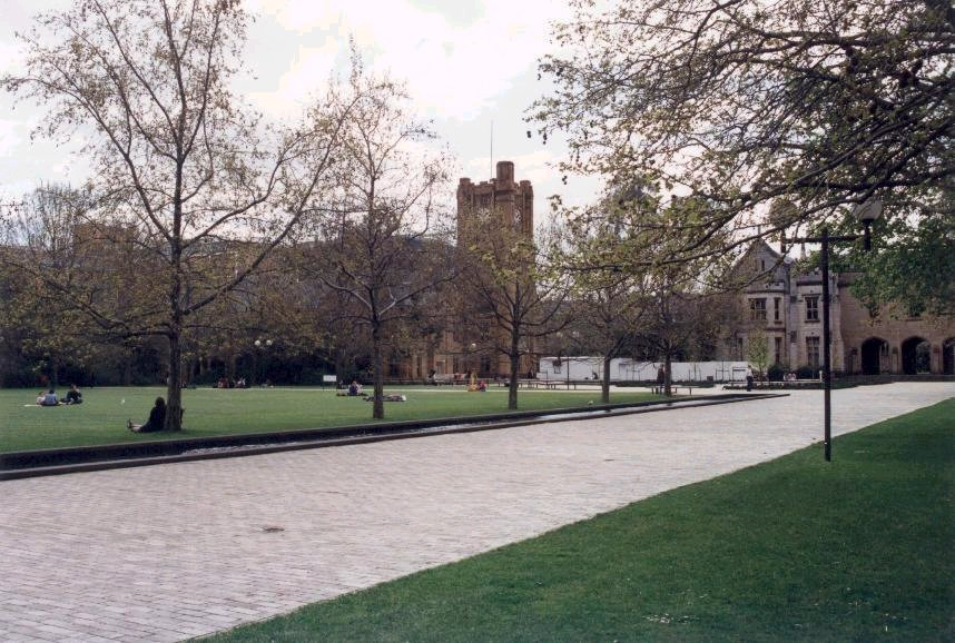 Melbourne University South Lawn. Part of the university's vast gardens.